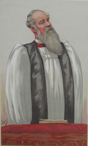 Caricature of John Charles Ryle (10 May 1816 - 10 June 1900), Anglican Bishop of Liverpool.